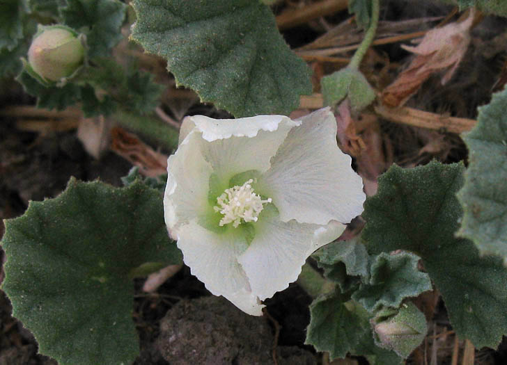 Malvella leprosa in Camarillo, California, USA. NPS photo, no copyright.